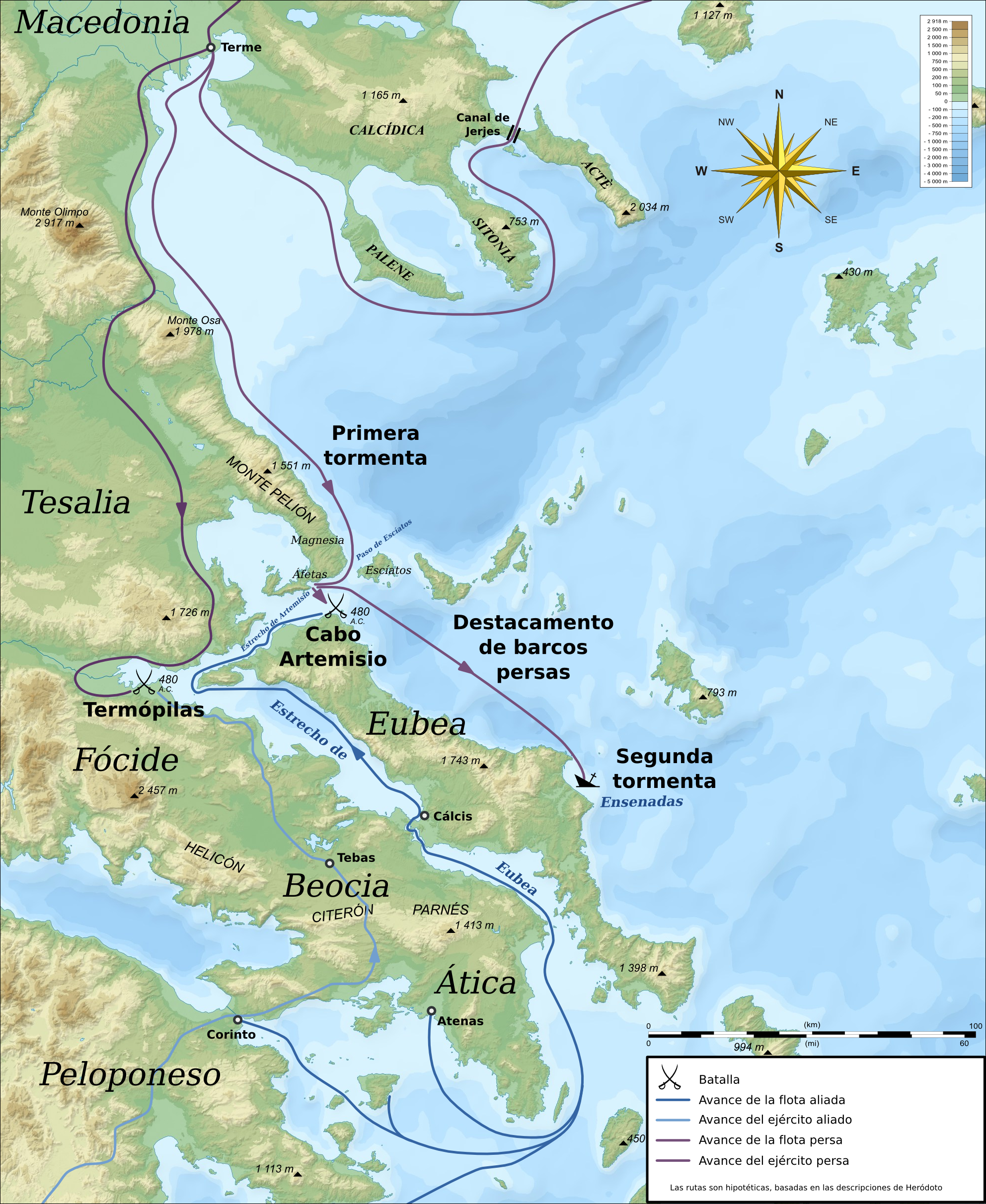 Campaign map for the Battles of Thermopylae & Artemisium (480 BC), based on the description of Herodotus. Imposed on a Bathymetic/Topographical map of the Aegean Sea. *UTM projection; WGS84 datum ; shaded relief *Scales: **Topography: 1:608,000 (precision 152 m) **Bathymetry: 1:7,512,000 (precision 1,878 m)